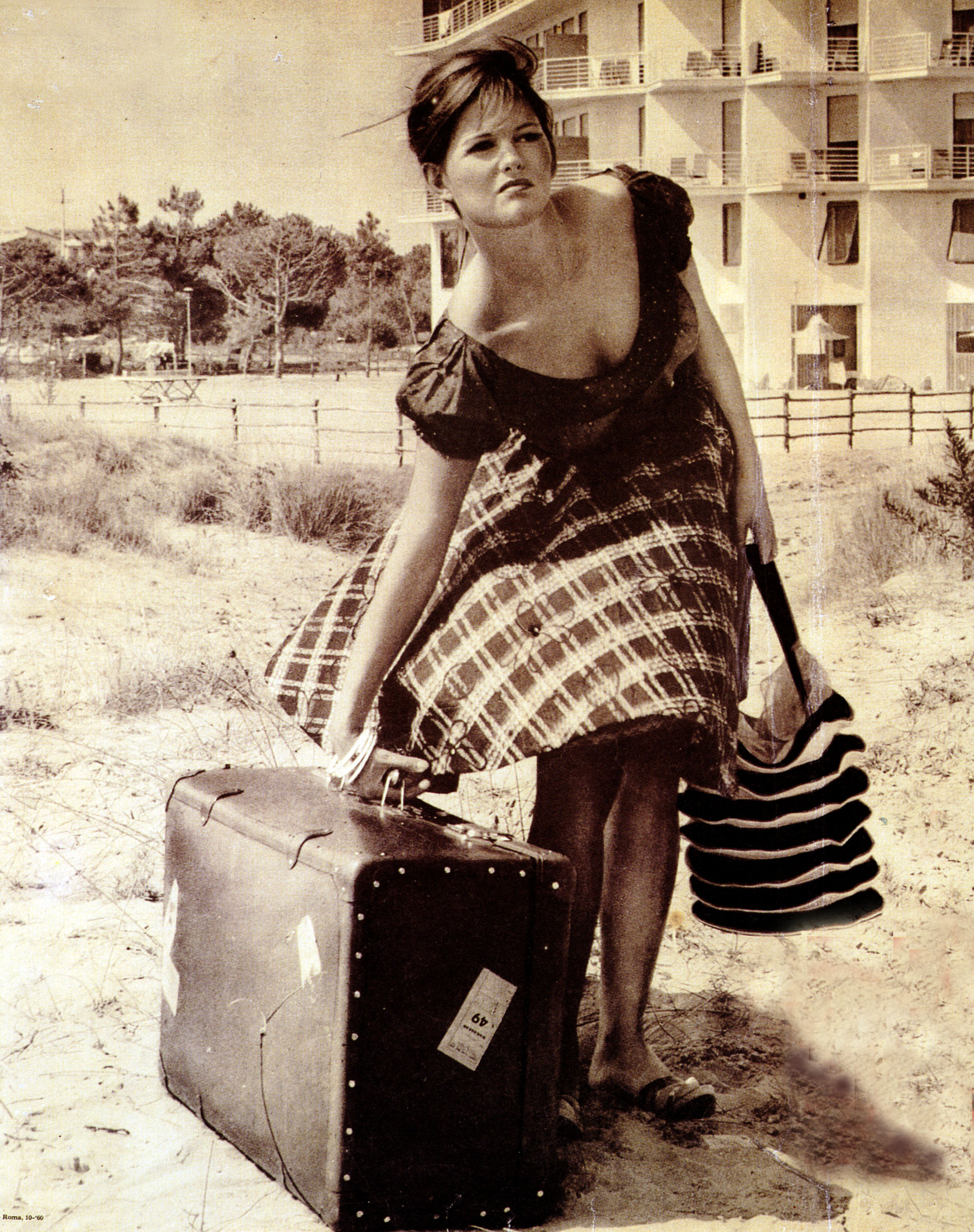 screenshot from the Italian film La ragazza con la valigia (1961)